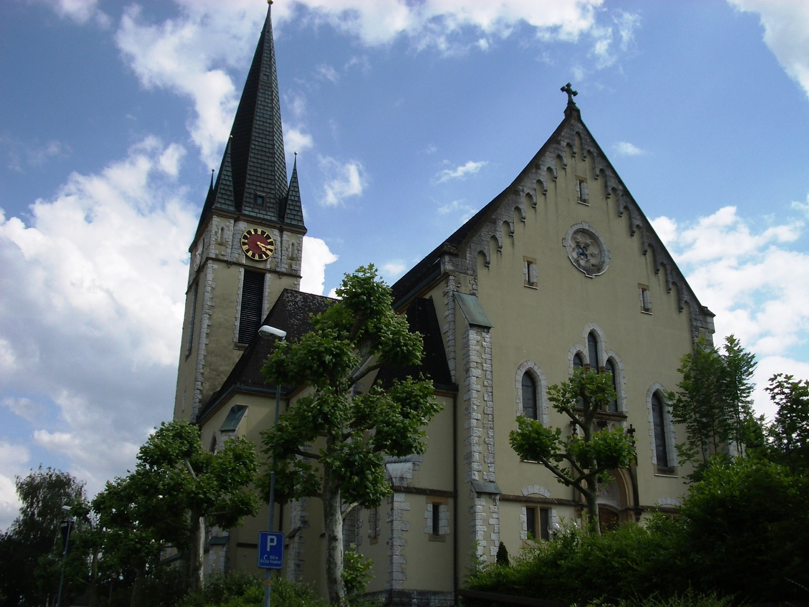 Church in Spreitenbach AG, Switzerland